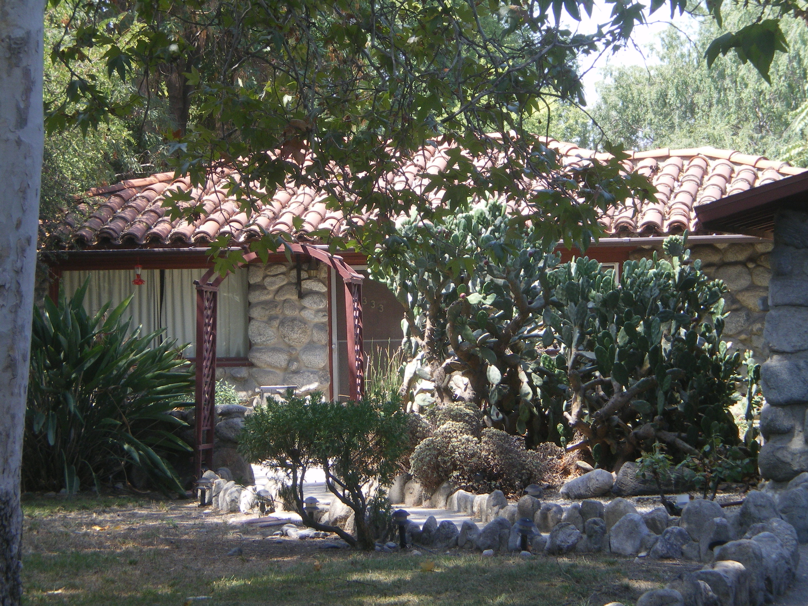 House at 333 South Mills Avenue, Russian Village District, Clarefmont, California